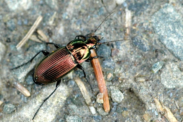 Picture taken in Commanster, Belgian High Ardennes . Species: Poecilus cupreus